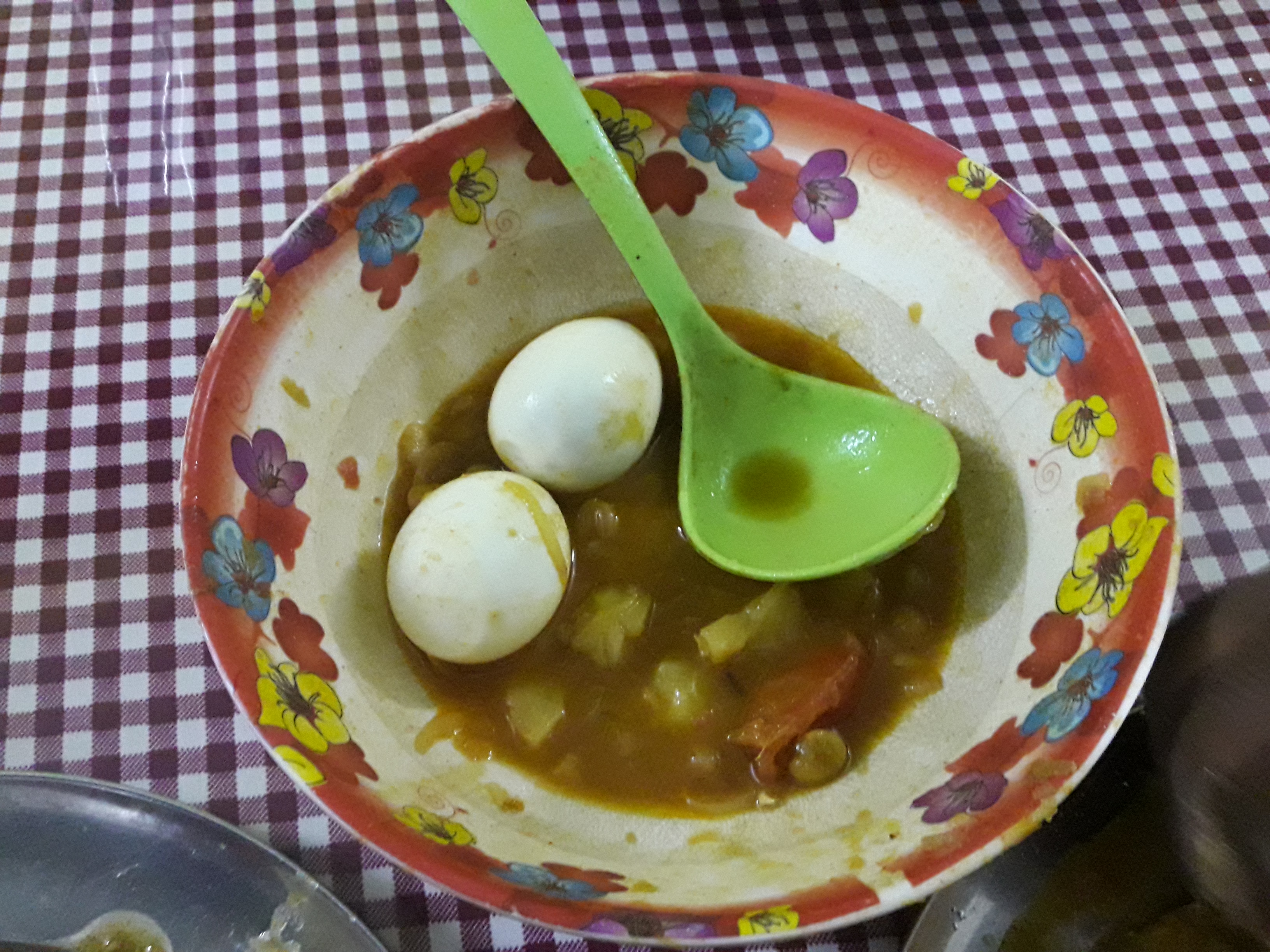 curry